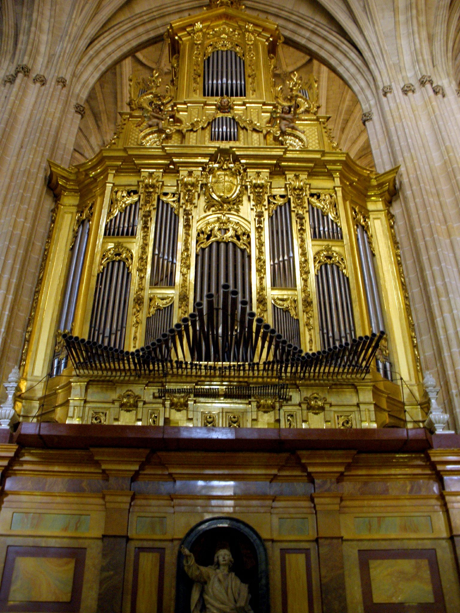 Órgano en la Catedral de Segovia. Segovia Cathedral Native nameCatedral de Santa María de SegoviaLocationSegovia , (Spain)Coordinates40° 57′ 00.65″ N, 4° 07′ 32.24″ W EstablishedMiddle AgeWeb page control : Q1499912 VIAF: 151939123 ISNI: 0000 0001 0672 8869 LCCN: n81124924 NLA: 36562756 BIC: RI-51-0000862 WorldCat institution QS:P195,Q1499912